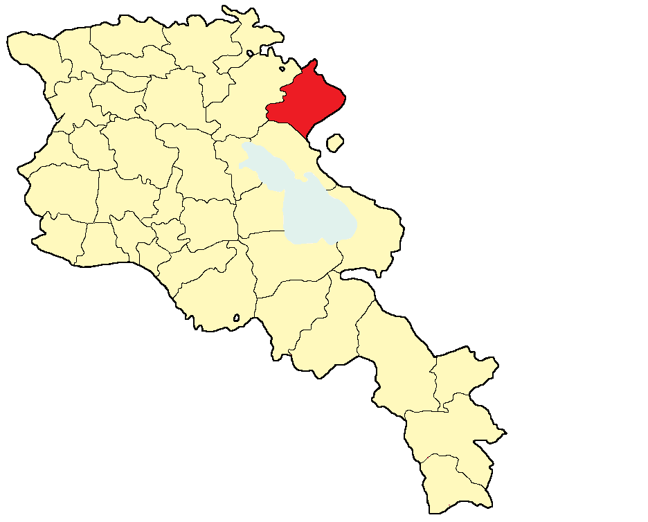 Shamshadin locator